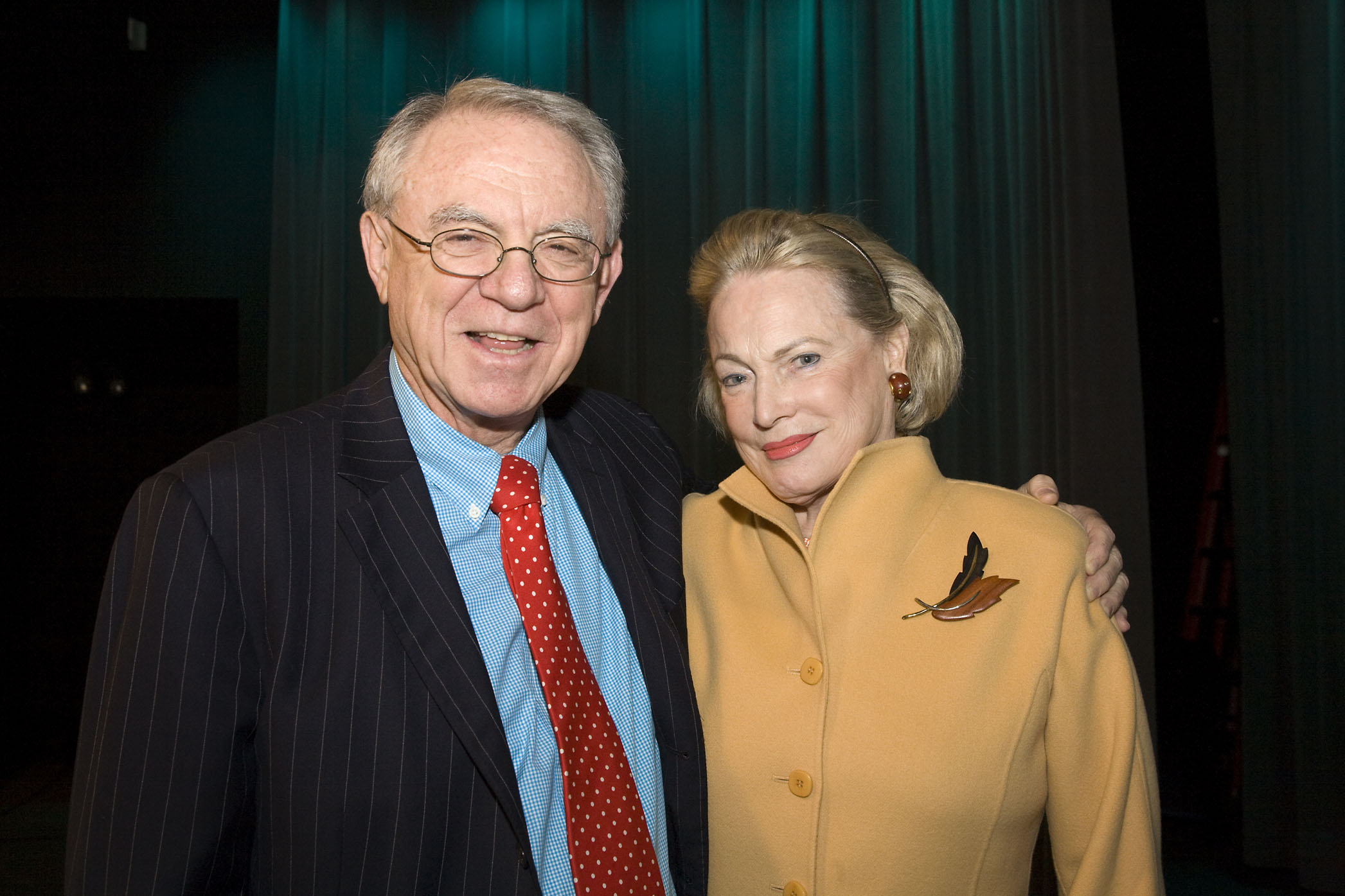 Women's Health Symposium (2008). Herbert Pardes, M.D., President and CEO, NewYork-Presbyterian Hospital, and Charlotte Ford.